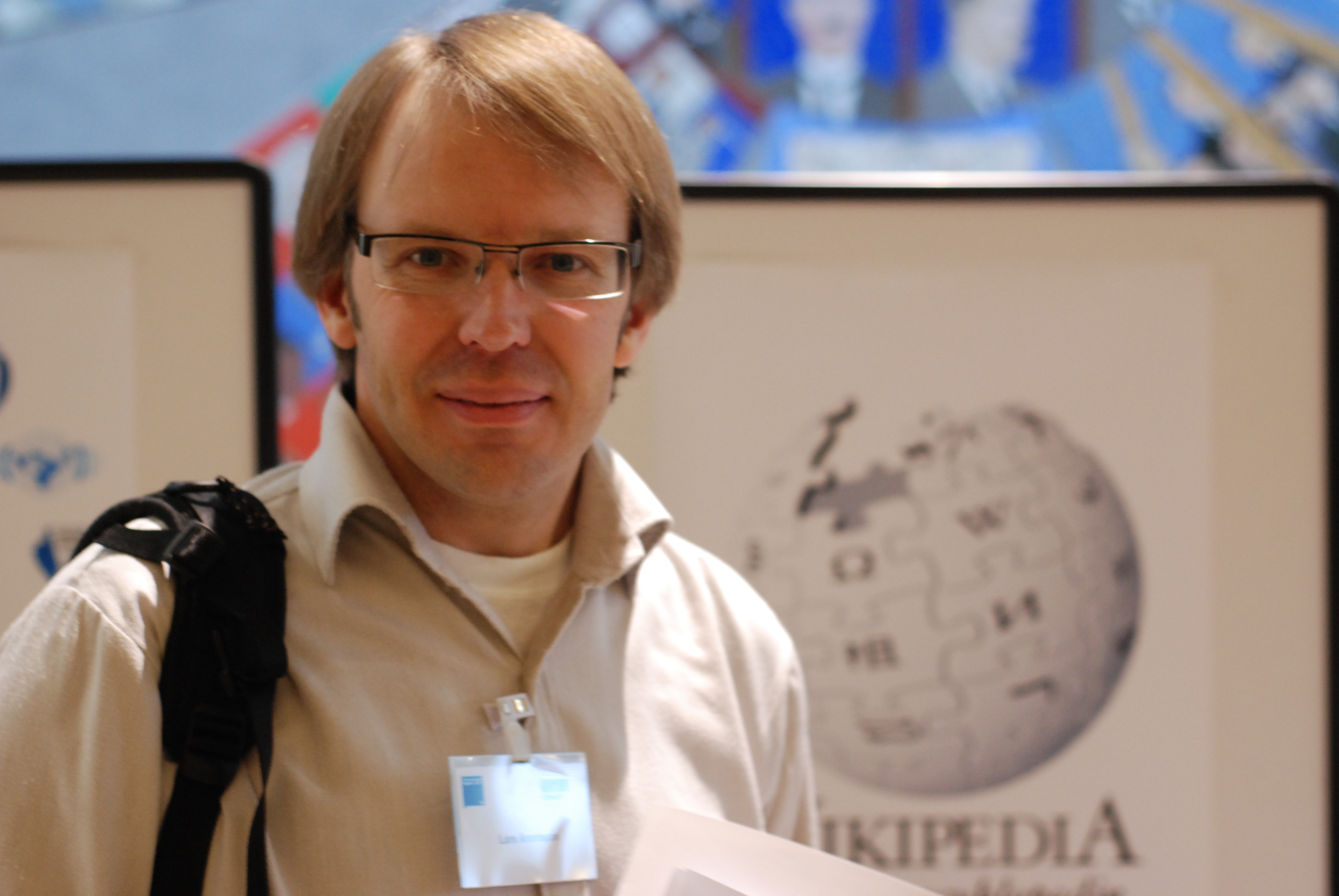 Photo of Lars Aronsson (user:LA2) at Internetdagarna 2007